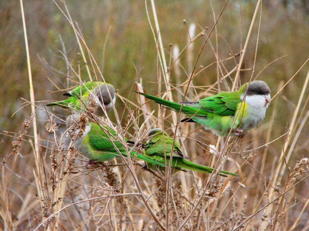 Grey-hooded Parakeets (also known as the Aymara Parakeet and the Sierra Parakeet) in Capilla del Monte, Córdoba, Argentina.